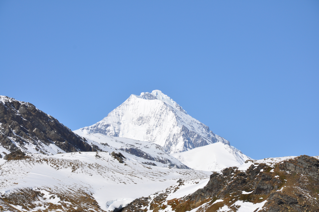 The Sugartop Mount (2 323 m) in South Georgia